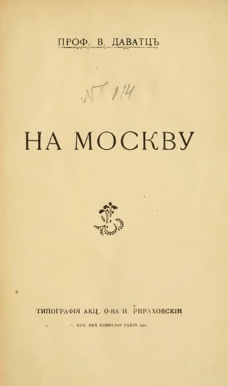 Book cover V.H.Davatc, "Na Moskvu". Paris 1921 year.